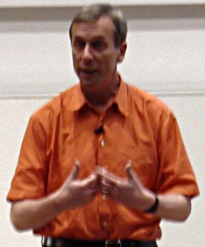 Kevin Warwick